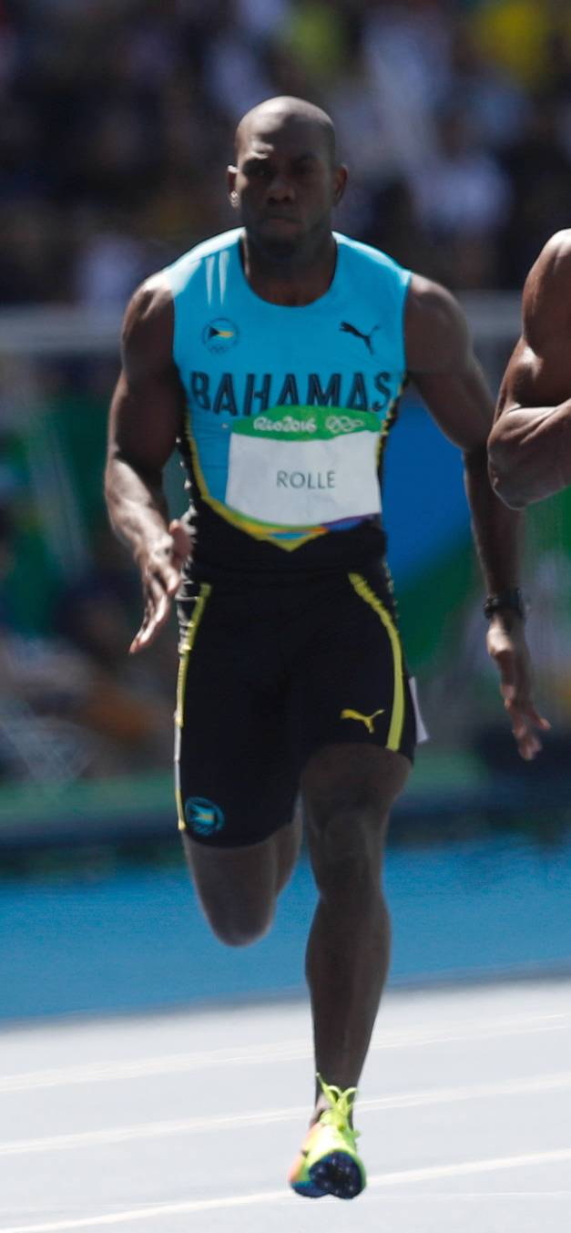 Men's 100 m sprint heats, Rio Olympics